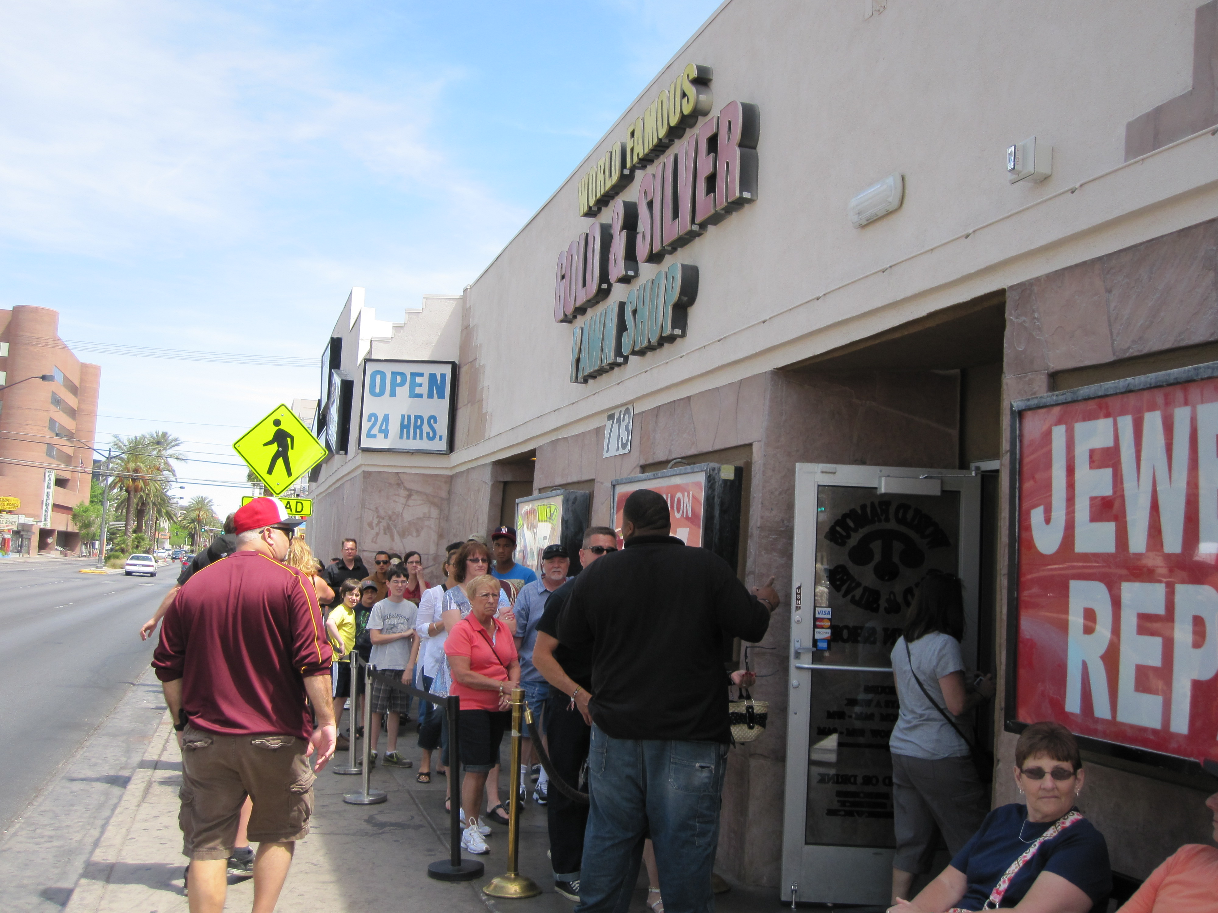 Close up of the exterior entrance to the shop use at the filming site for the American reality television series Pawn Stars. (The Gold and Silver Pawn shop in Las Vegas). Since becoming a tourist attraction, a bouncer controls the flow of customers/sightseers in the shop, who queue up outside for up to fifteen minutes to enter.